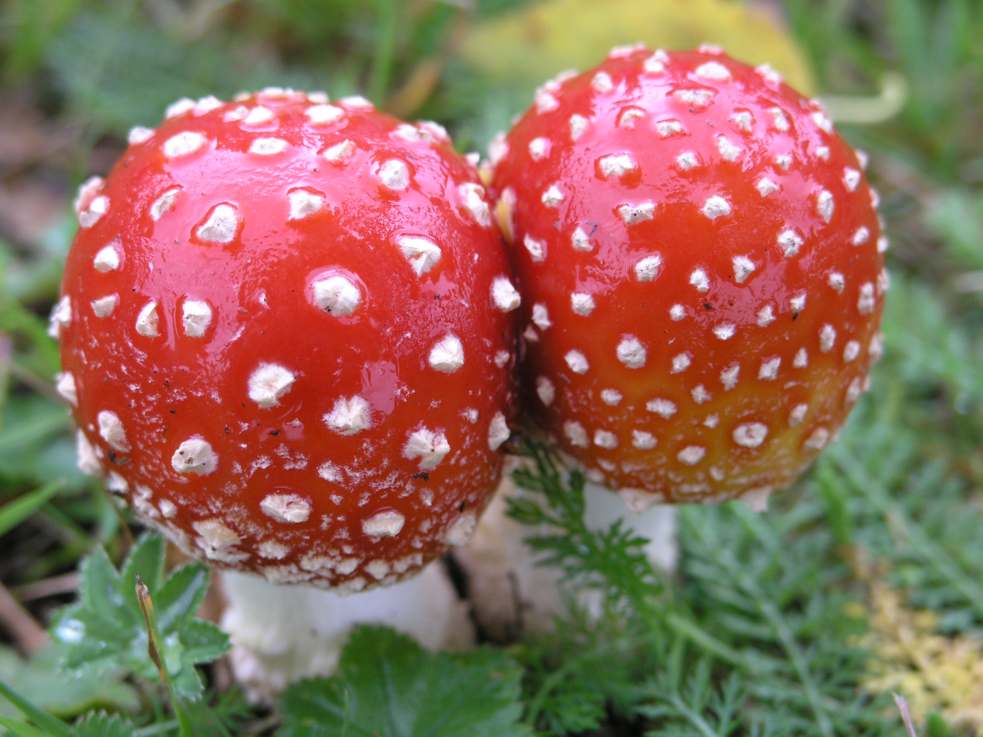 Amantia muscaria